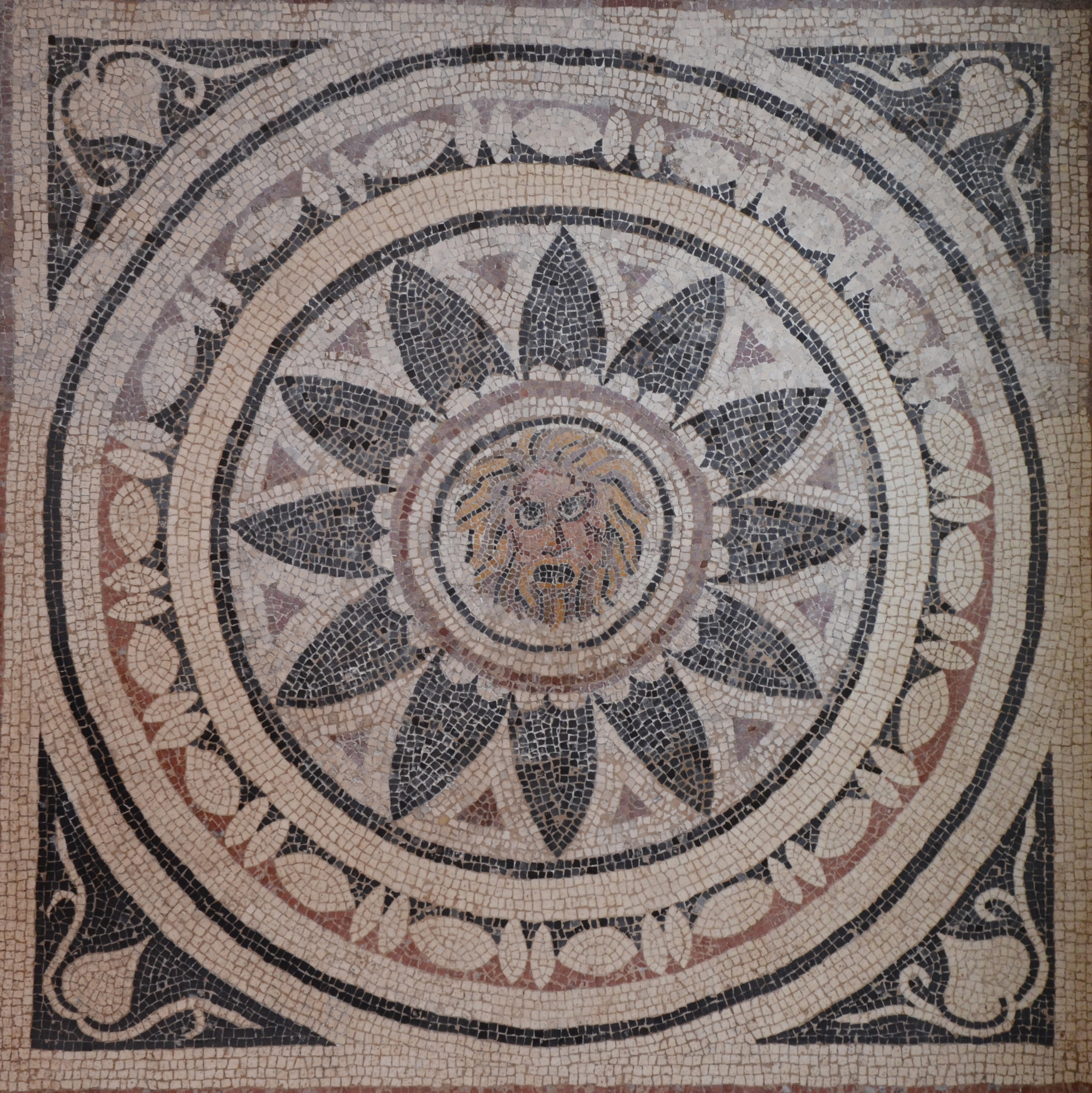 Phobos (Ancient Greek: Φόβος, pronounced [pʰóbos], meaning "fear") is the personification of fear in Greek mythology. He is the offspring of Aphrodite and Ares. He was known for accompanying Ares into battle along with the ancient war goddess Enyo, the goddess of discord Eris (both sisters of Ares), and Phobos' twin brother Deimos (terror). In Classical Greek mythology, Phobos is more of a personification of the fear brought by war and does not appear as a character in any myths. Timor or Timorus is his Roman equivalent.